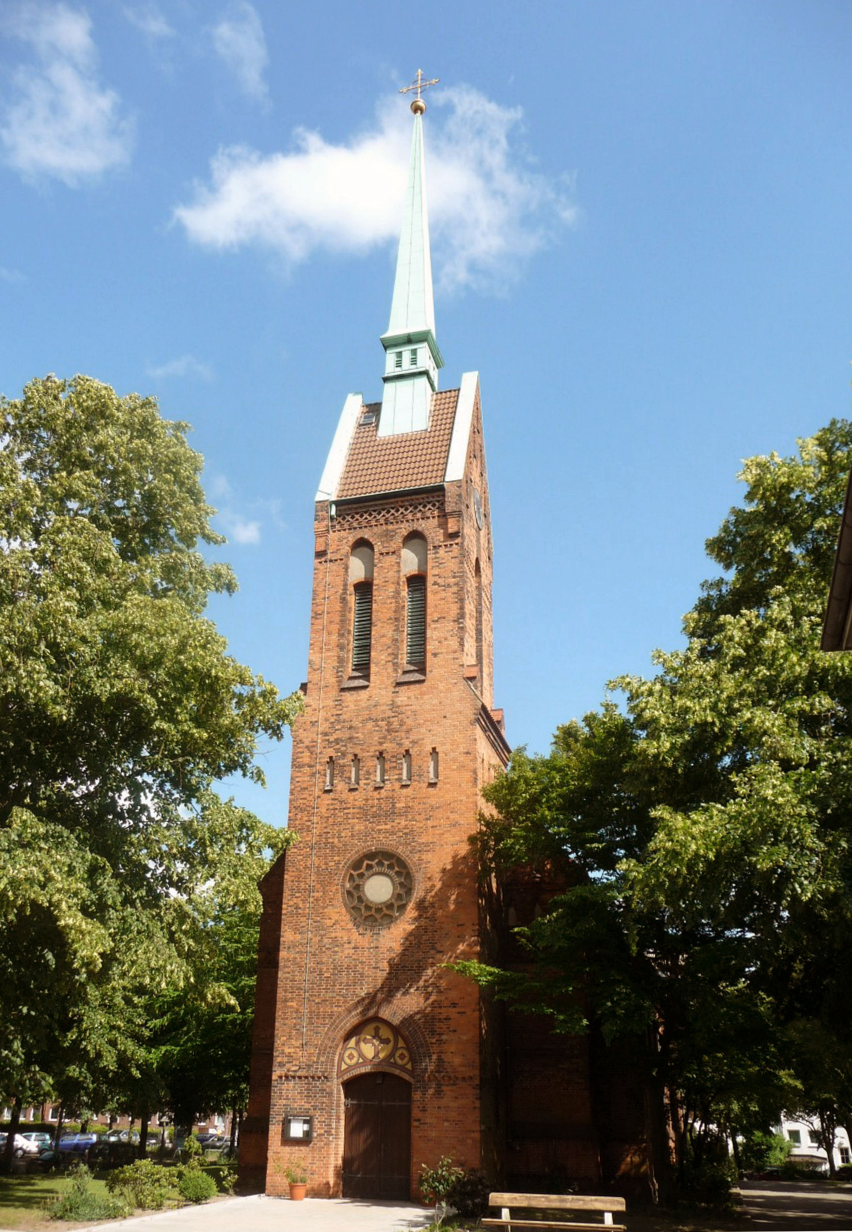 St. Martin Church in Hamburg-Horn